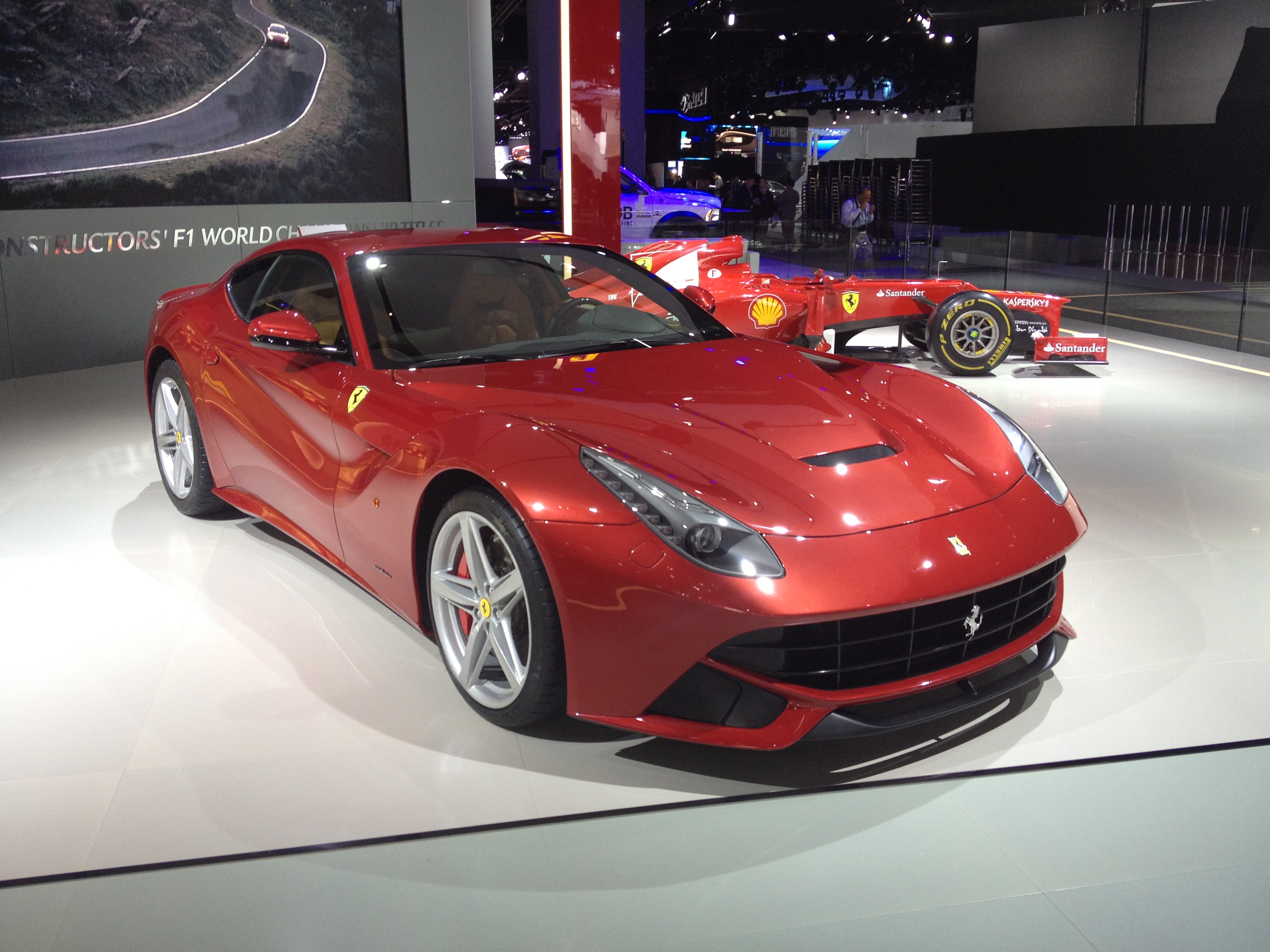 2013 North American International Auto Show Detroit, Michigan